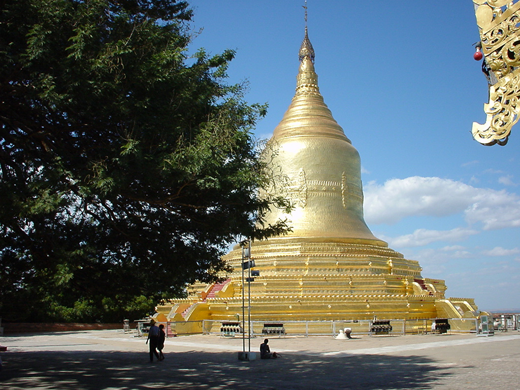 Pagan Lawkananda main Pagoda